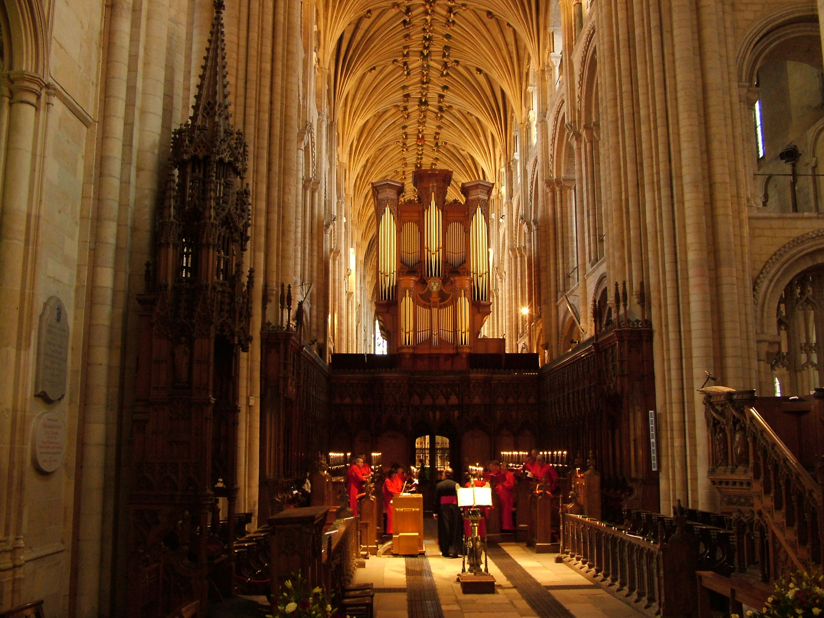 Norwich Cathedral